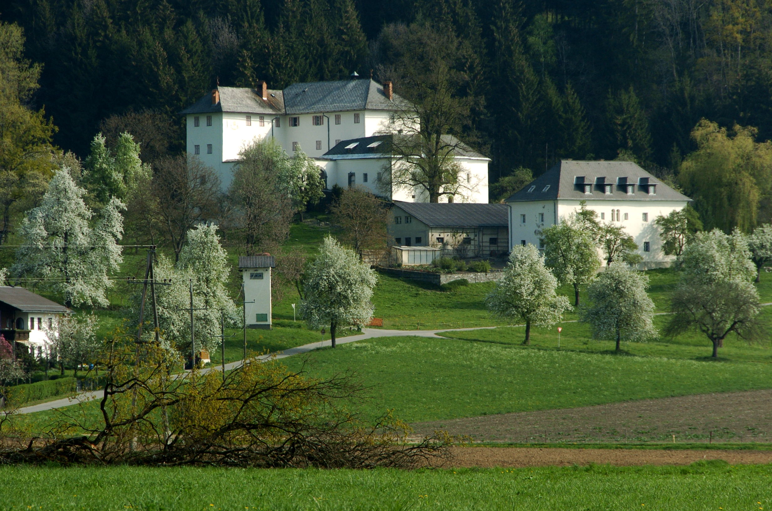 Castle Rosenbichl at Rosenbichl, municipality Liebenfels, district St. Veit an der Glan, Carinthia, Austria